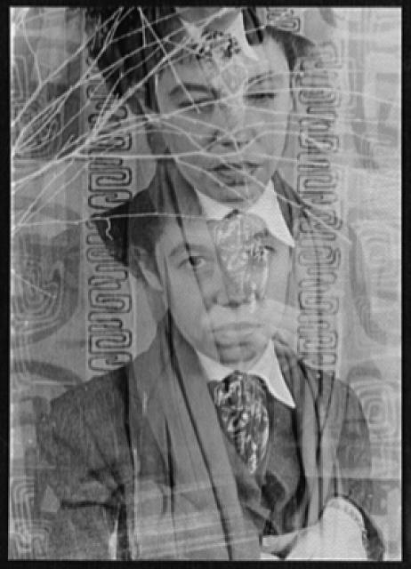 Title: Portrait of Jane Bowles Abstract: 1 photographic print : gelatin silver.